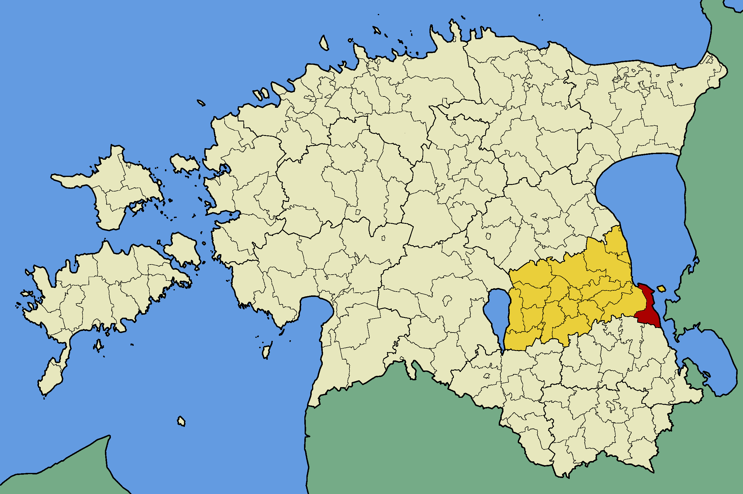 Map of Estonia with borders of municipalities (parishes). Tartu county and Meeksi municipality emphasized.